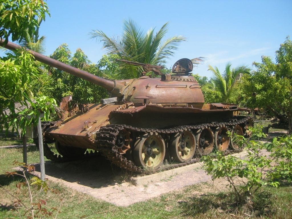 T-54 or Type 59 tank from the recently ended Cambodian civil war at the war museum in Siem Reap, Cambodia.